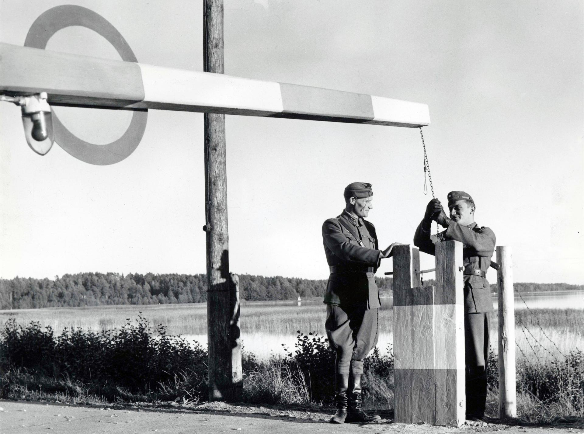 Photograph of the border of Porkkala lease area (Soviet naval base).